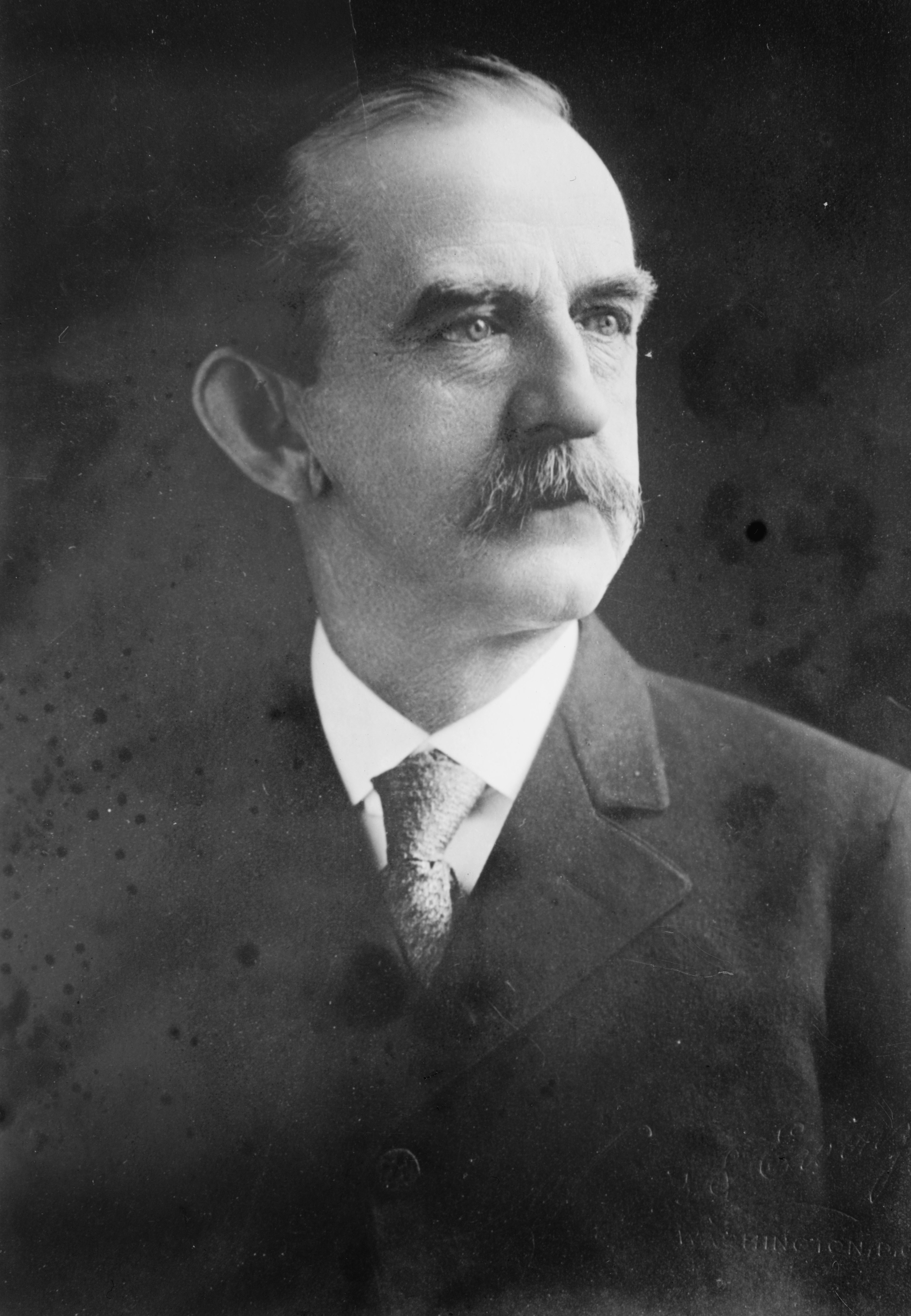 Title: Murray Crane, portrait Abstract/medium: 1 negative : glass ; 5 x 7 in. or smaller.